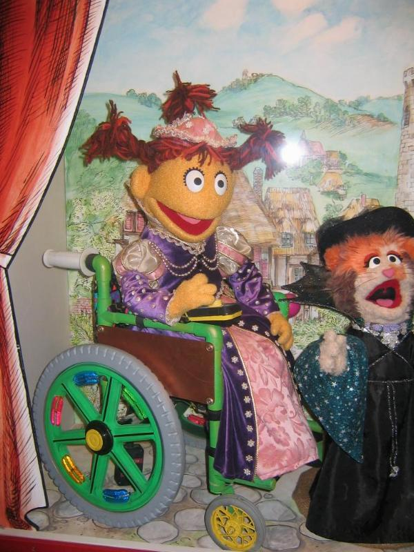 Katie from Sesame Park. Note that the puppet itself is created by Sesame Workshop.